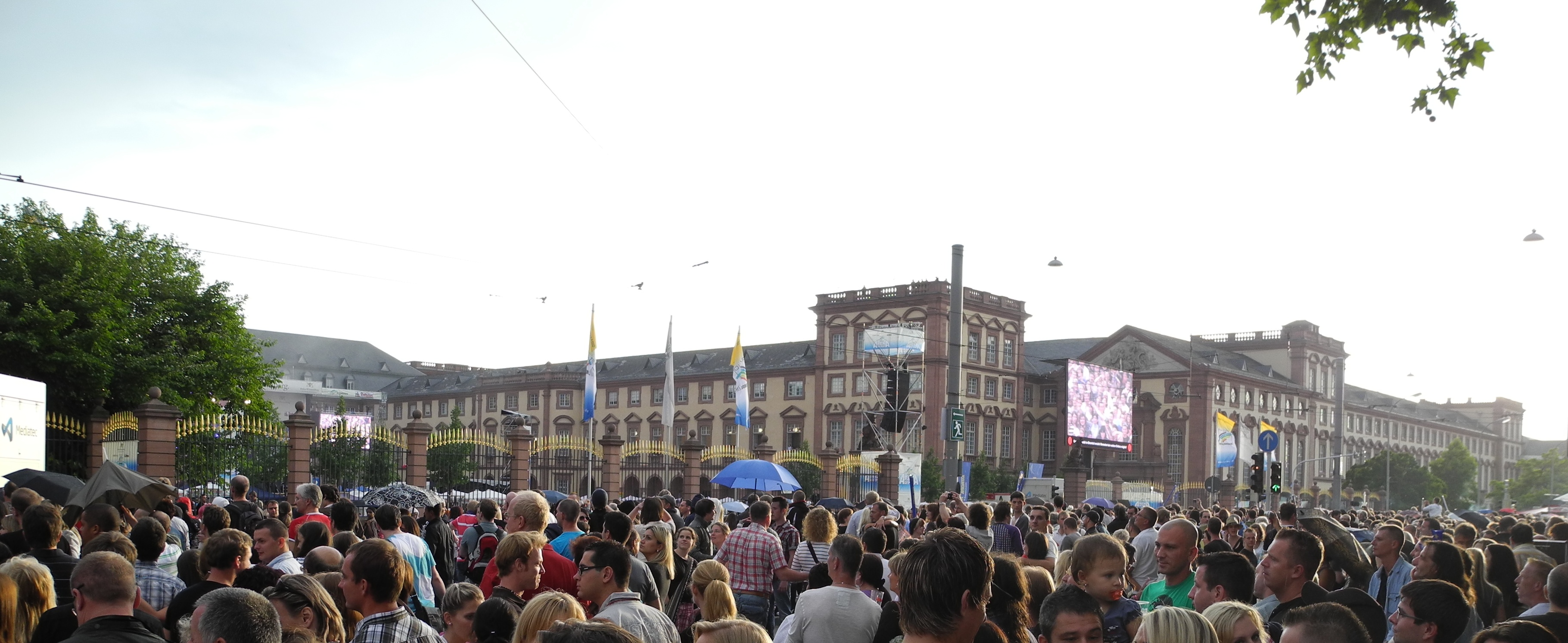 Arena of Pop 2011, Mannheim, Bismarkstr